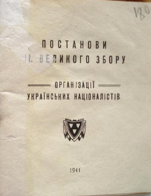 Cover of the Bandera's OUN II Conference Resolutions. April 1941 General Government